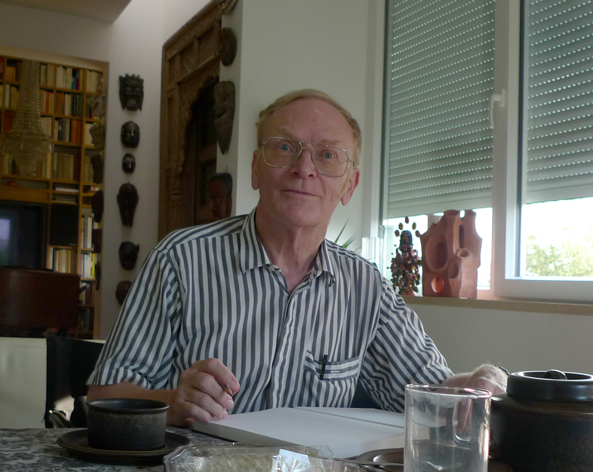 Dr.Hasso Hohmann